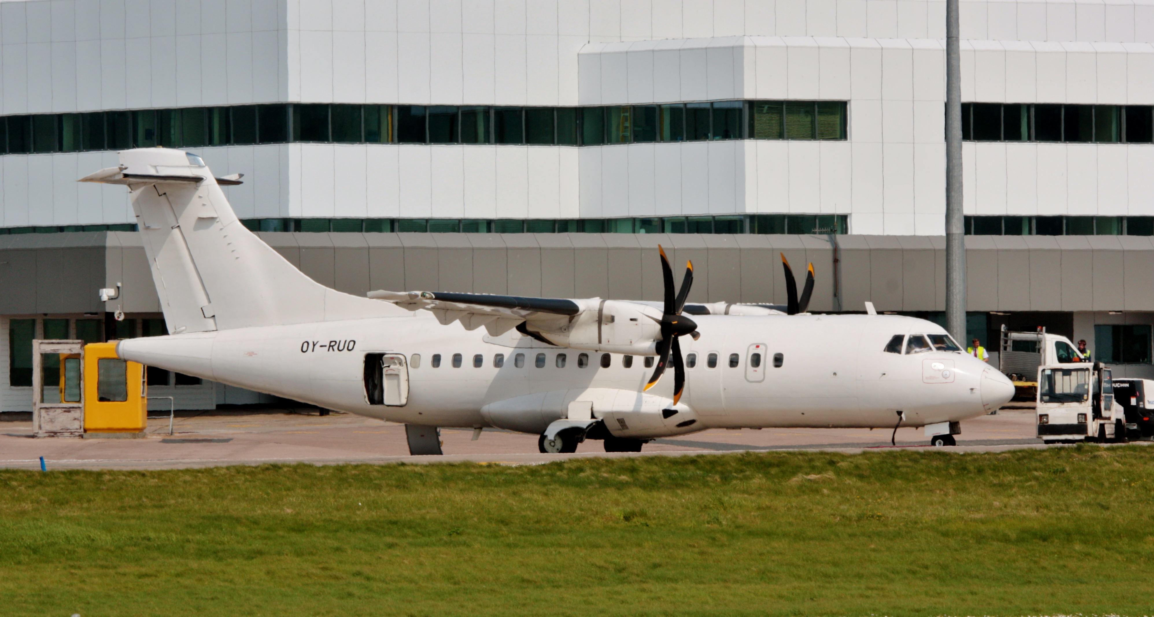 On the apron at Sumburgh